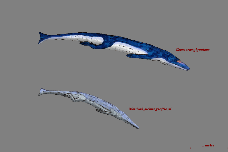 Geosaurus giganteus and Metriorhynchus geoffroyii compared at scale.